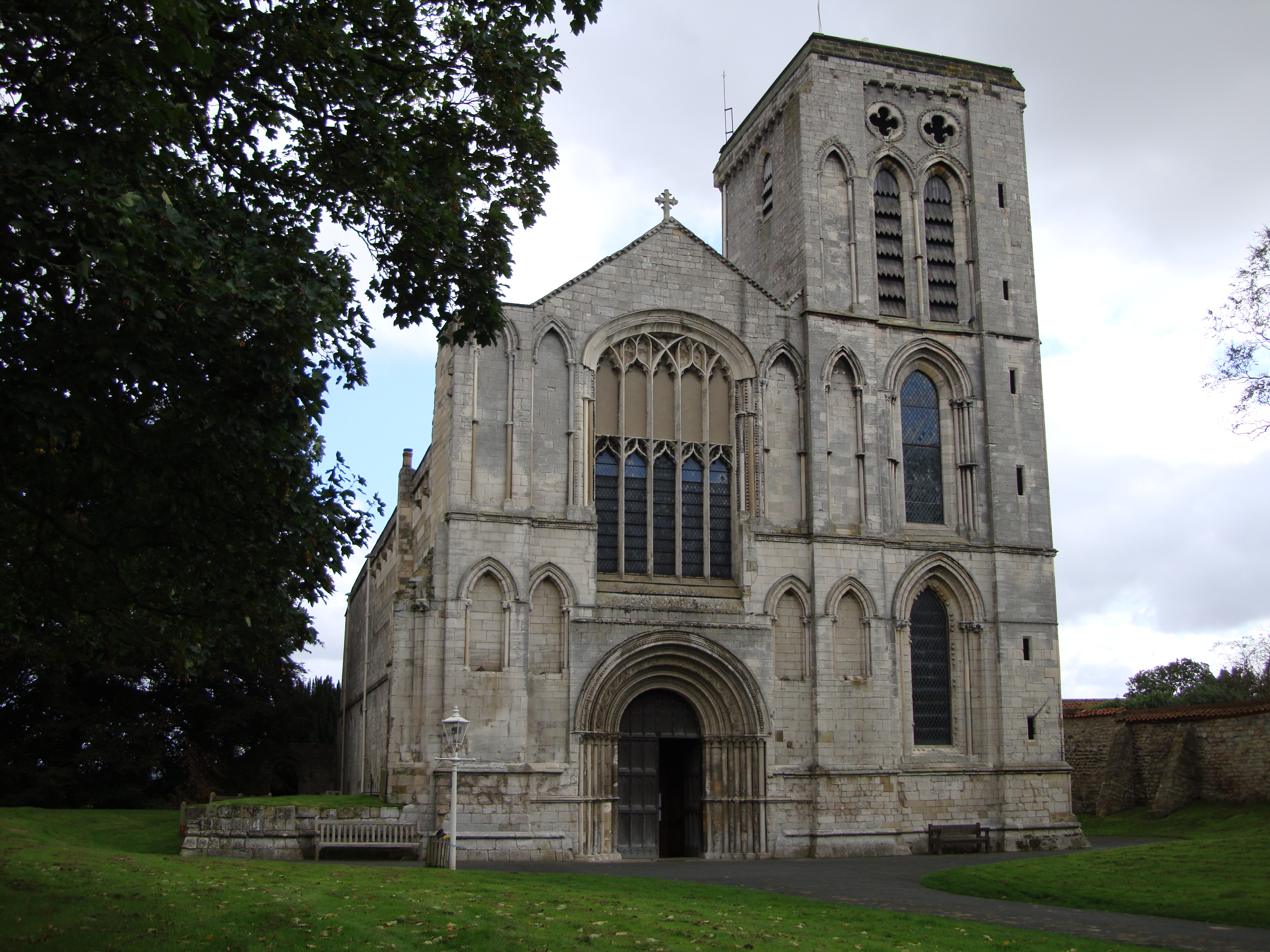 Photograph of Malton Priory, North Yorkshire, England